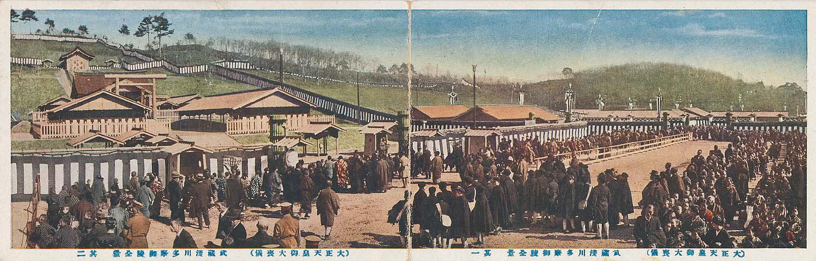 Funeral of Emperor Taisho. The first ceremony was held on 26 December 1926. He was buried from February 7 to February 8, 1927 in Musashi Imperial Graveyard, Tokyo.